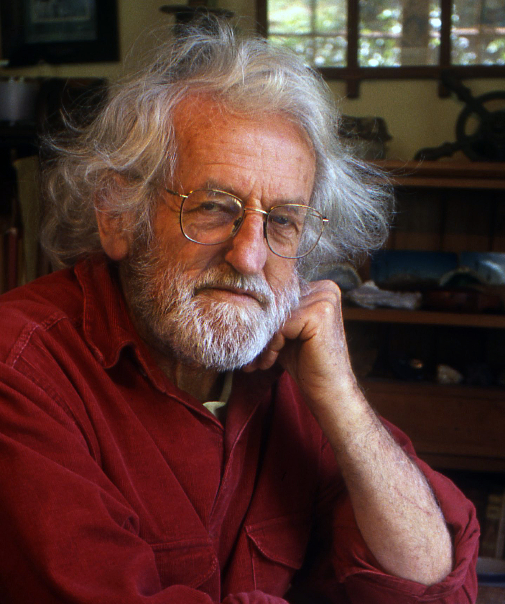 Taken at his house at Pahi while researching 'Seven Lives on Salt River""